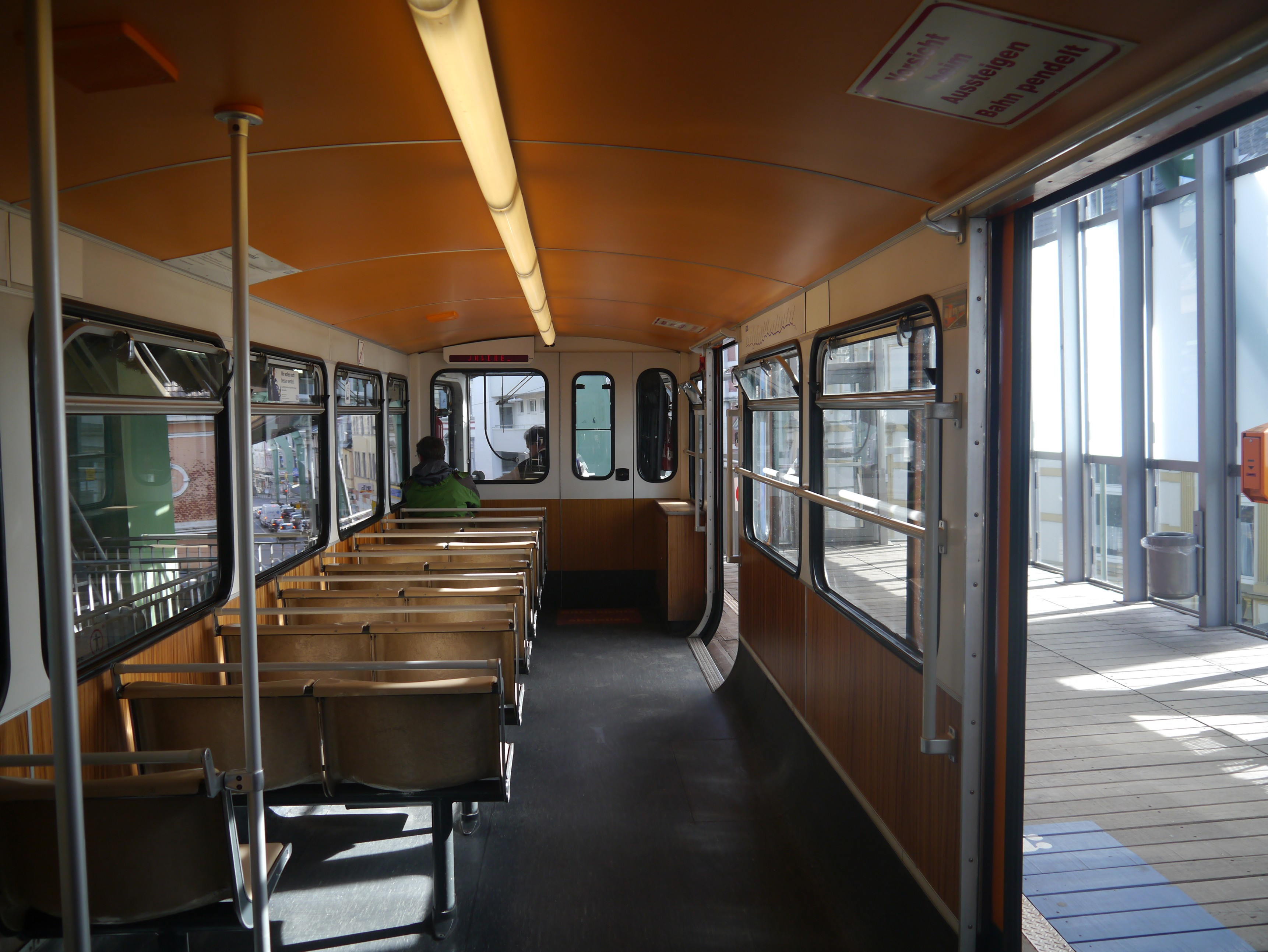 Interior view of a train segment of the Suspension Railway, Wuppertal, North Rhine-Westphalia, Germany